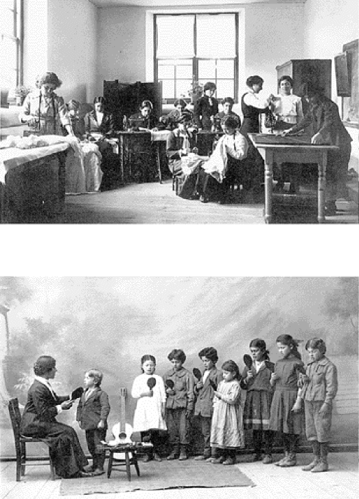 Students of Anatolia College when it was still in Merzifon